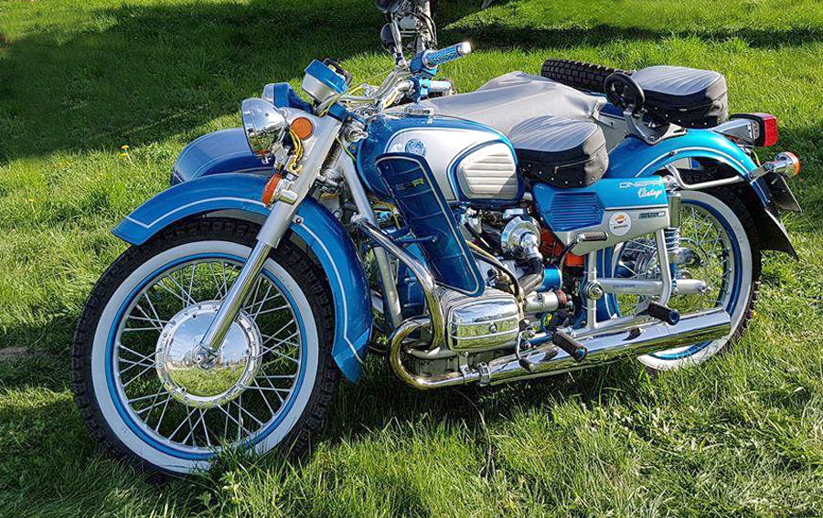 Motobike «Dnepr Vintage» 2017, Limited Edition ,AUTO-Consulting Design.